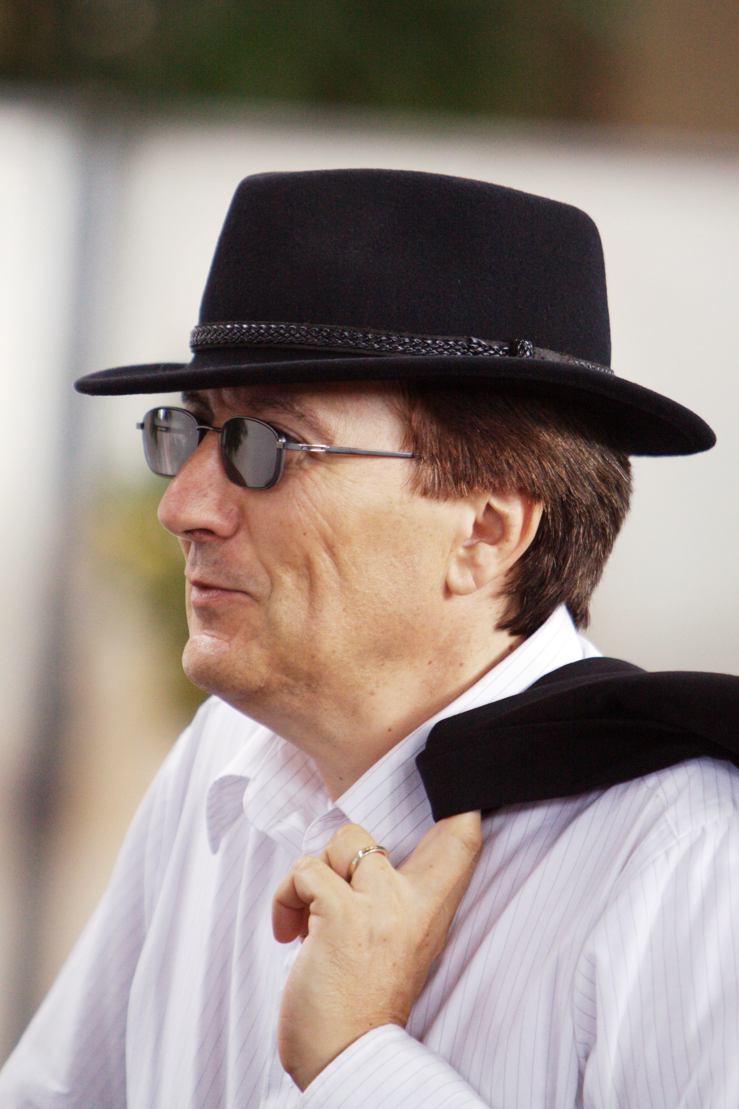 Werner Hug in Zürich Hauptbahnhof, 200 years of Schachgesellschaft Zurich